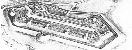 Drawing of Fort Foote as it existed during the Civil War. Drawing courtesy US National Park Service.